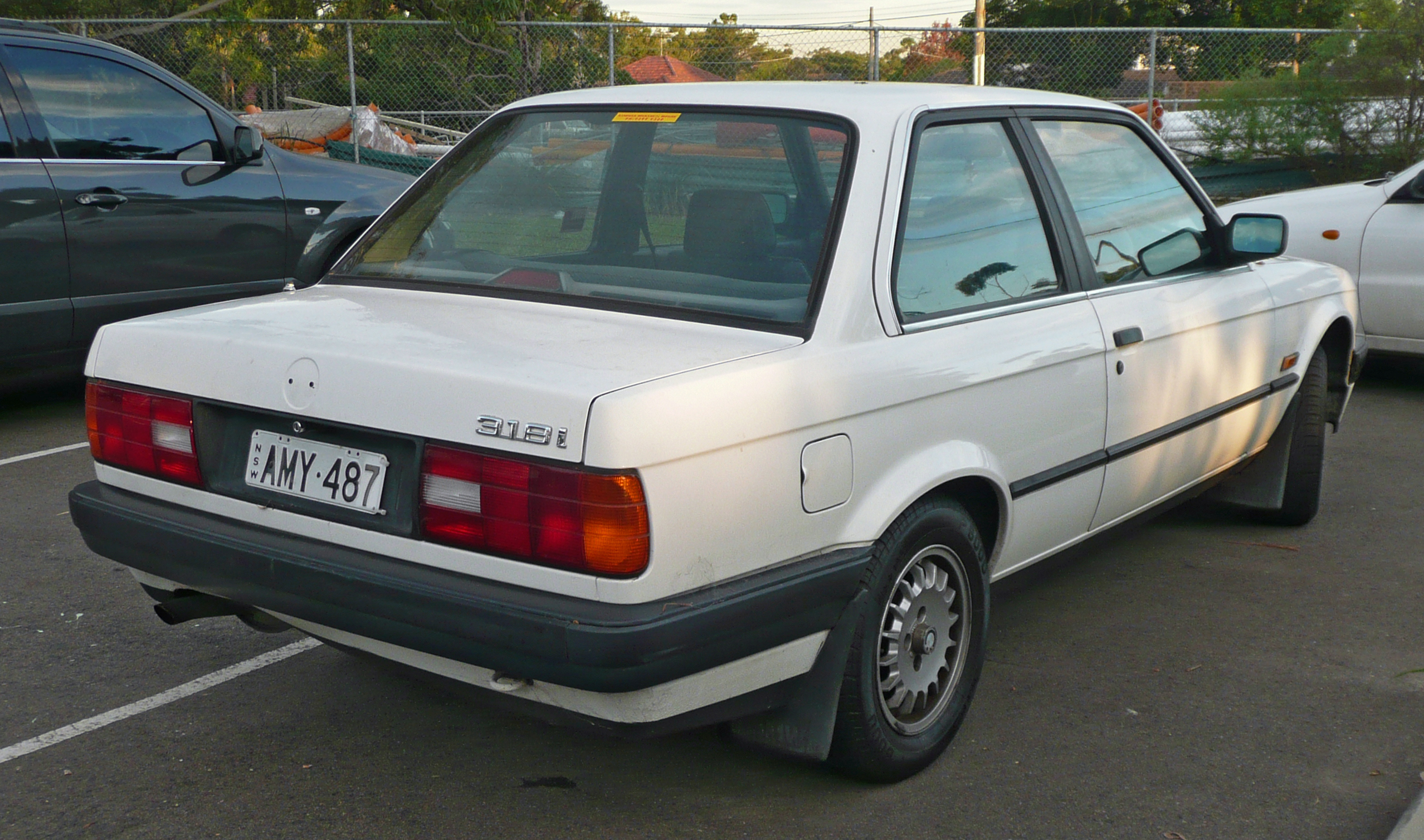 1989 BMW 318i (E30) 2-door sedan. Photographed in Kirrawee, New South Wales, Australia.